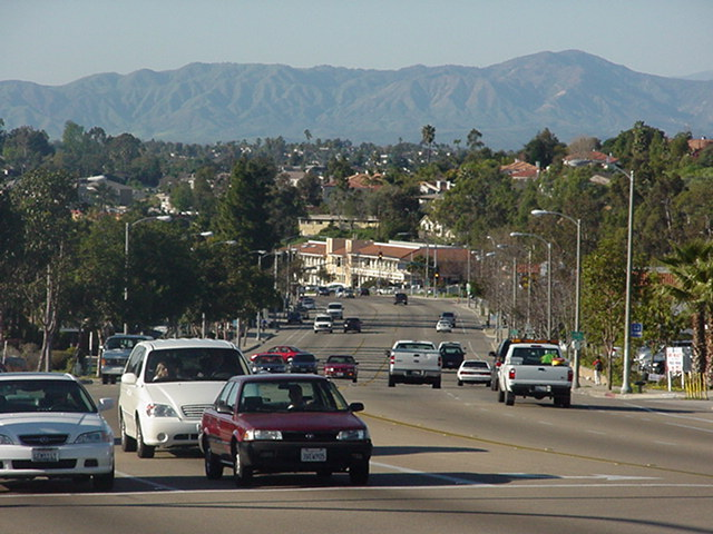 A view of one of the main streets, South Santa Fe Ave, in the Southern Part of Vista